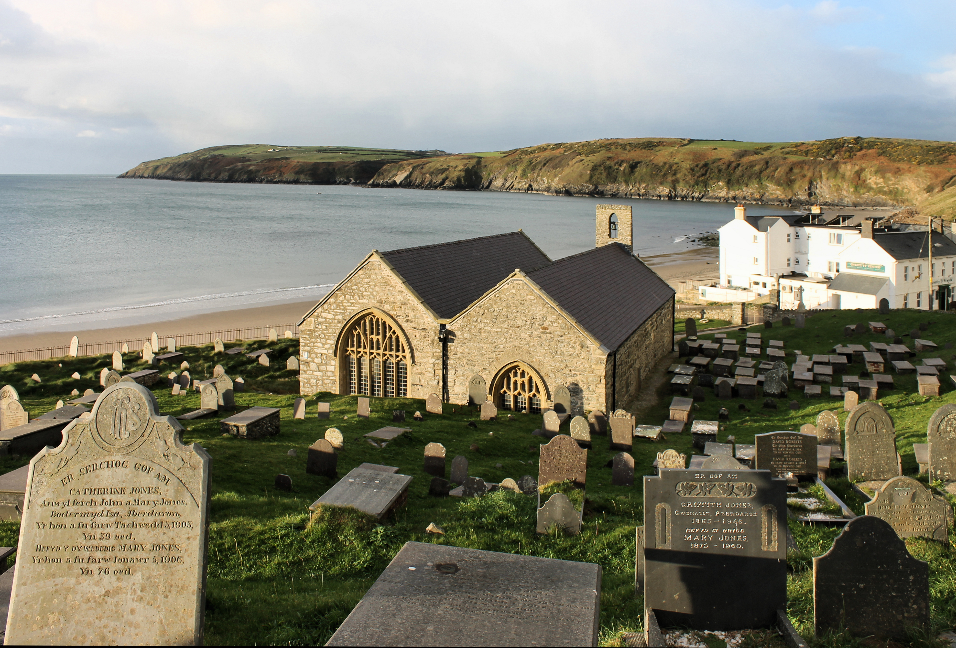 St Hywyn's Church - Aberdaron, Gwynedd, Wales.